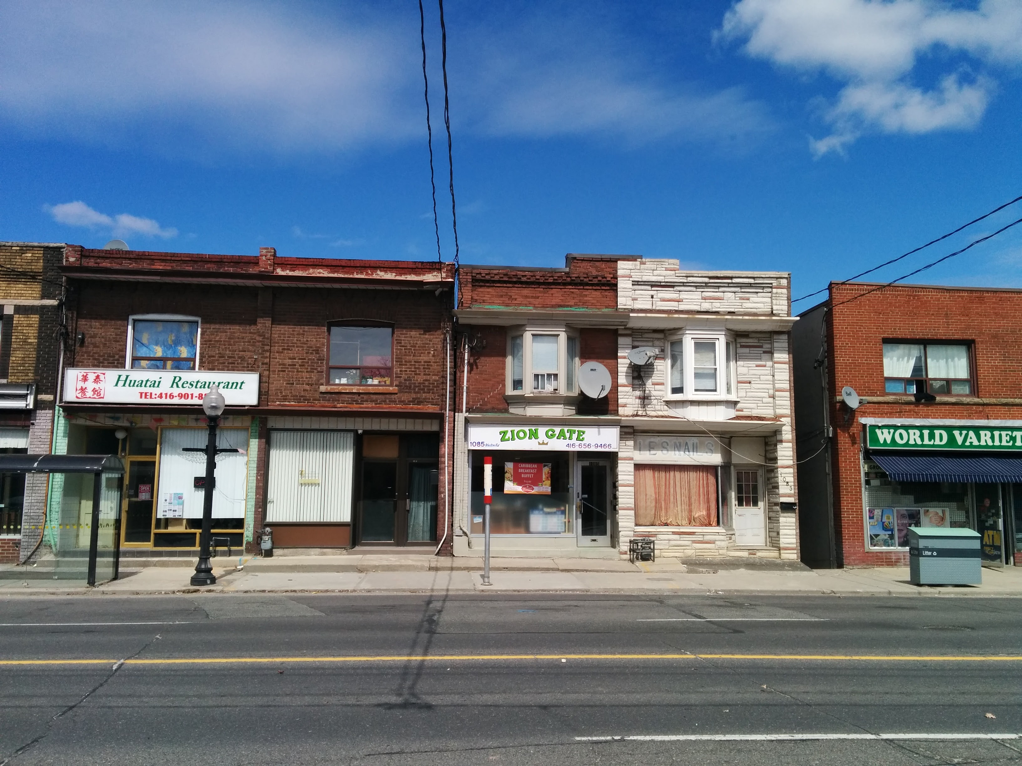 Street view of storefronts along 1104-1081 Weston Road, Toronto, ON